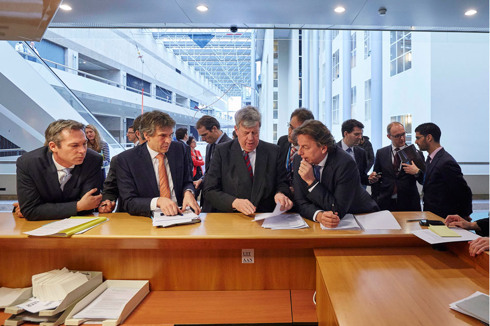 Back in parliament. Here Bert Koenders is talking to Dick Schoof (National Coordinator for Security and Counterterrorism) and former security and justice minister Ivo Opstelten between sessions of the debate on the MH17 air disaster in the House of Representatives on 12 February 2015.